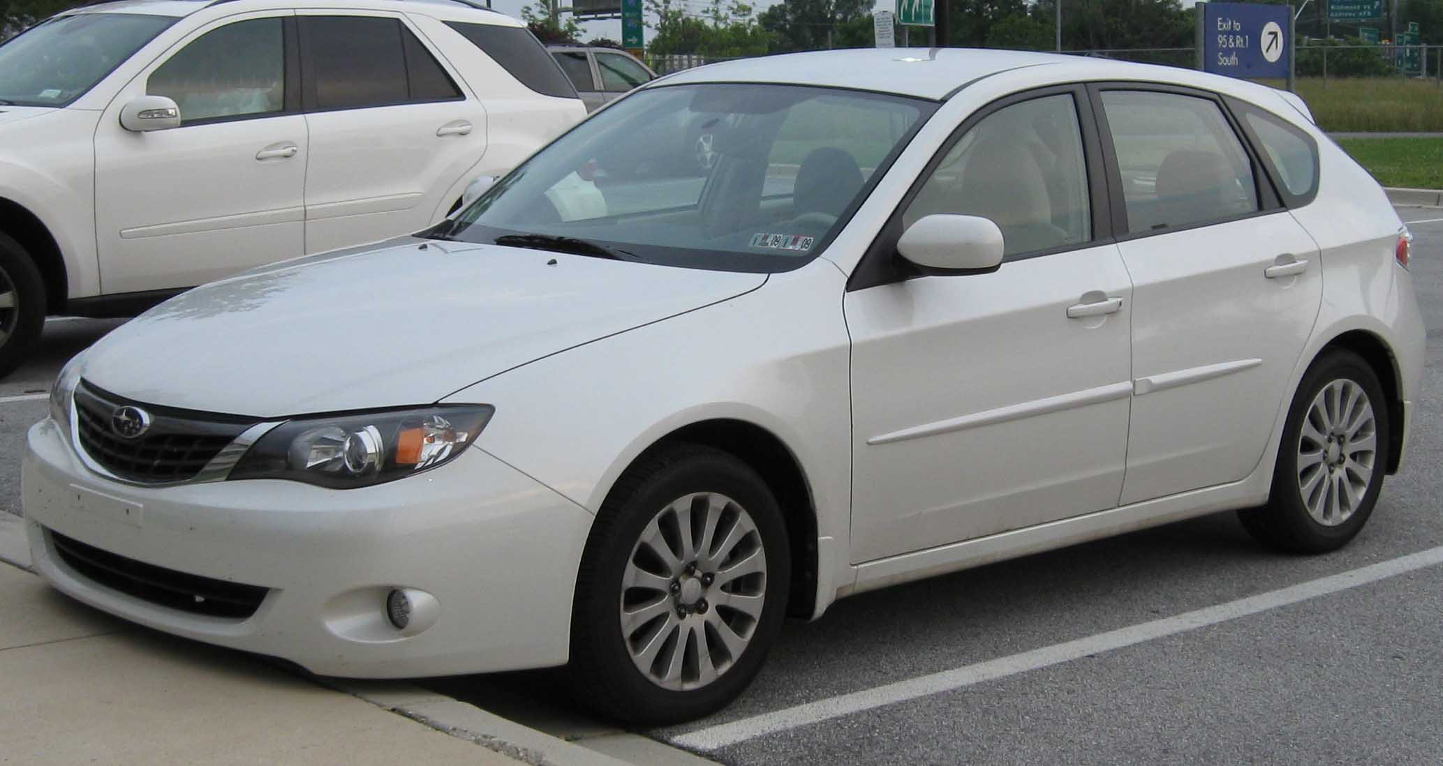 2008 Subaru Impreza photographed in College Park, Maryland, USA.